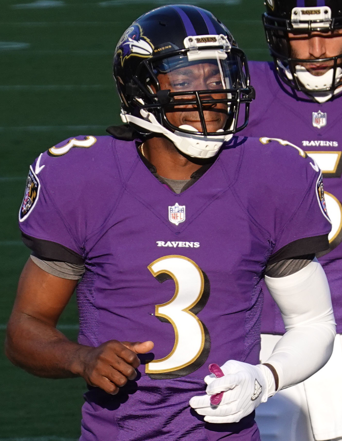 Joe Flacco Robert Griffin III